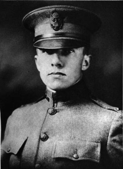 Ulysses s. Grant serving as first lieutenant at the United States Army- 1st World War.